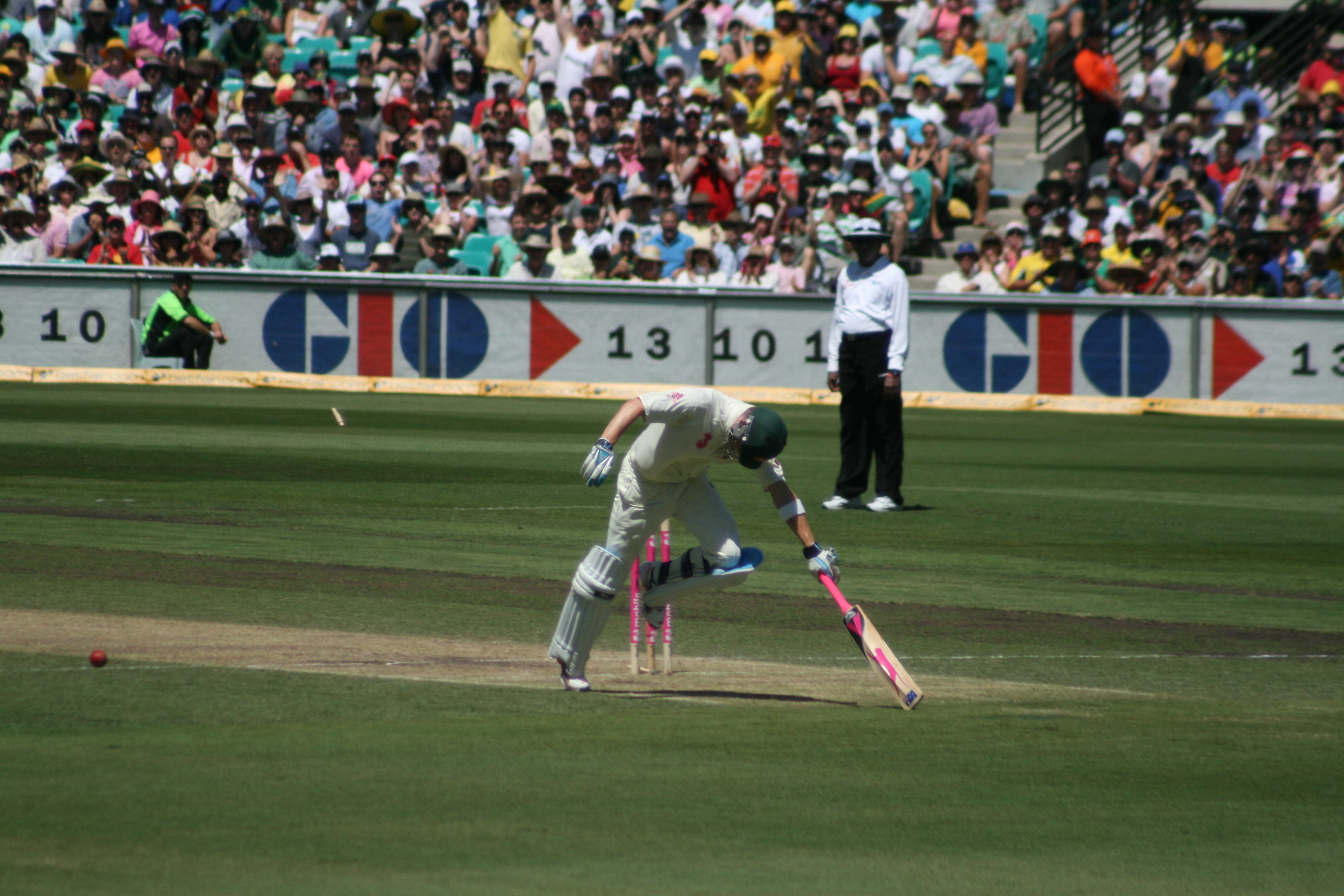 A cricket shot from Privatemusings, taken at the second day of the SCG Test between Australia and South Africa. Michael Clarke narrowly escapes being run out while taking a quick single to bring up 100.